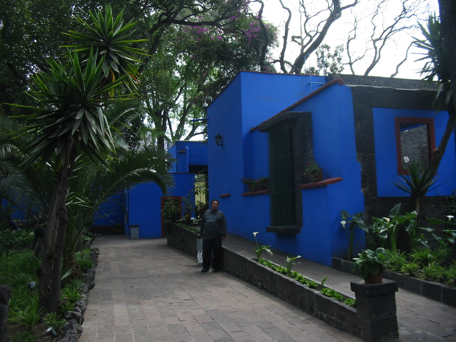 Walkway leading to the entrance of the Casa Azul